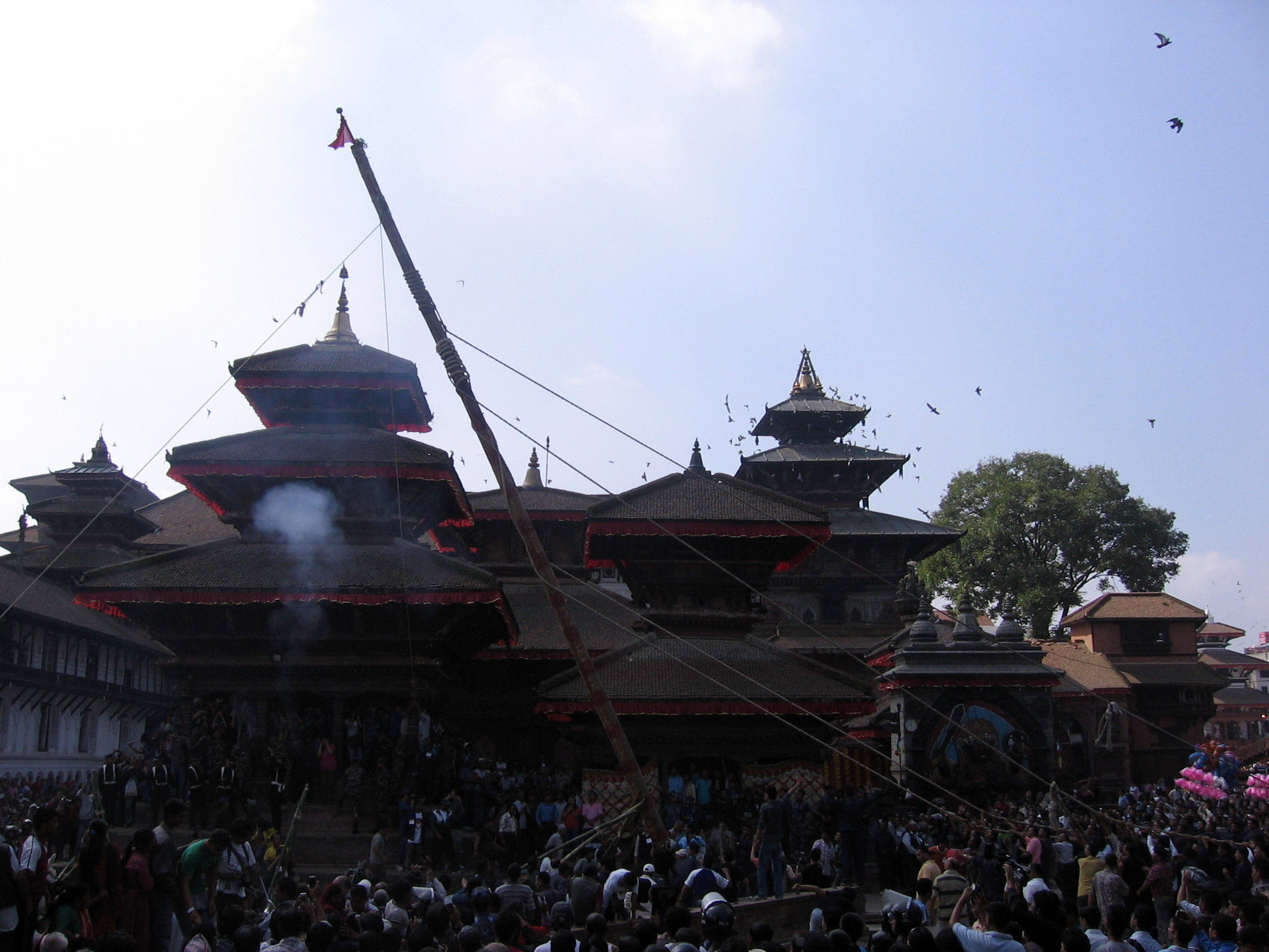 Raising the Yosin pole at Kathmandu Durbar Square marking the start of Indra Jatra festival. The puff of smoke at left is from muskets being fired in salute.